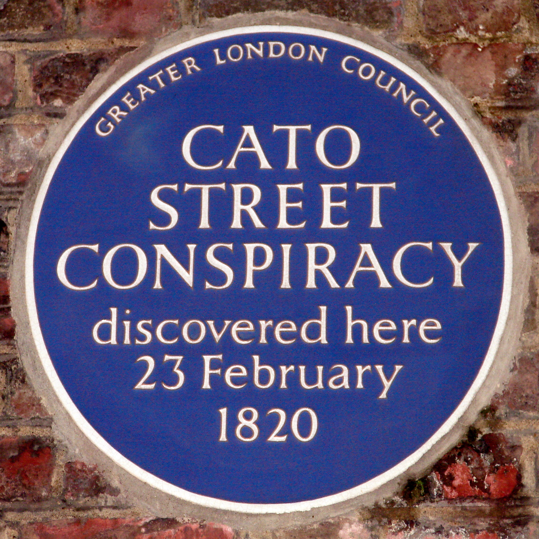 This photo was taken on February 18, 2010 in Lisson Grove, London, England, GB, using a Sony DSC-H1.